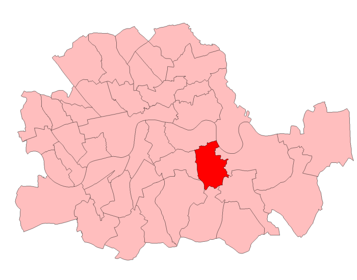 A map of Deptford constituency within the London County Council area, as it existed from 1950 to 1974.